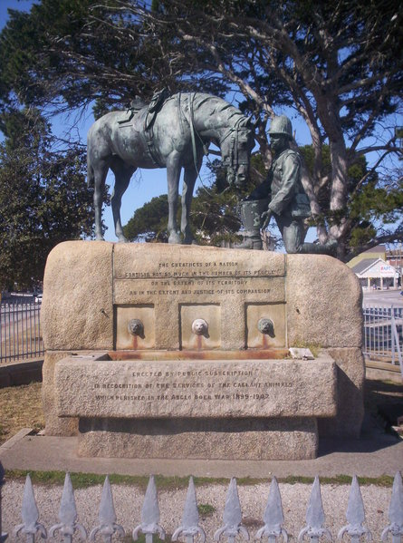 Original description: The Horse Memorial was erected in recognition of the animals which died during the Anglo Boer War (1899 - 1902).